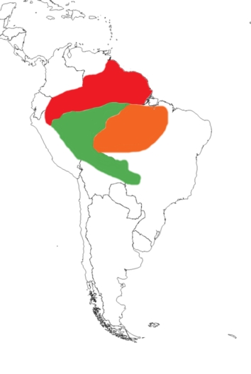 Psophiidae: Distribution red - Grey-winged Trumpeter - Psophia crepitans green - Pale-winged Trumpeter - Psophia leucoptera orange - Dark-winged Trumpeter - Psophia viridis The ranges are separated by large rivers.